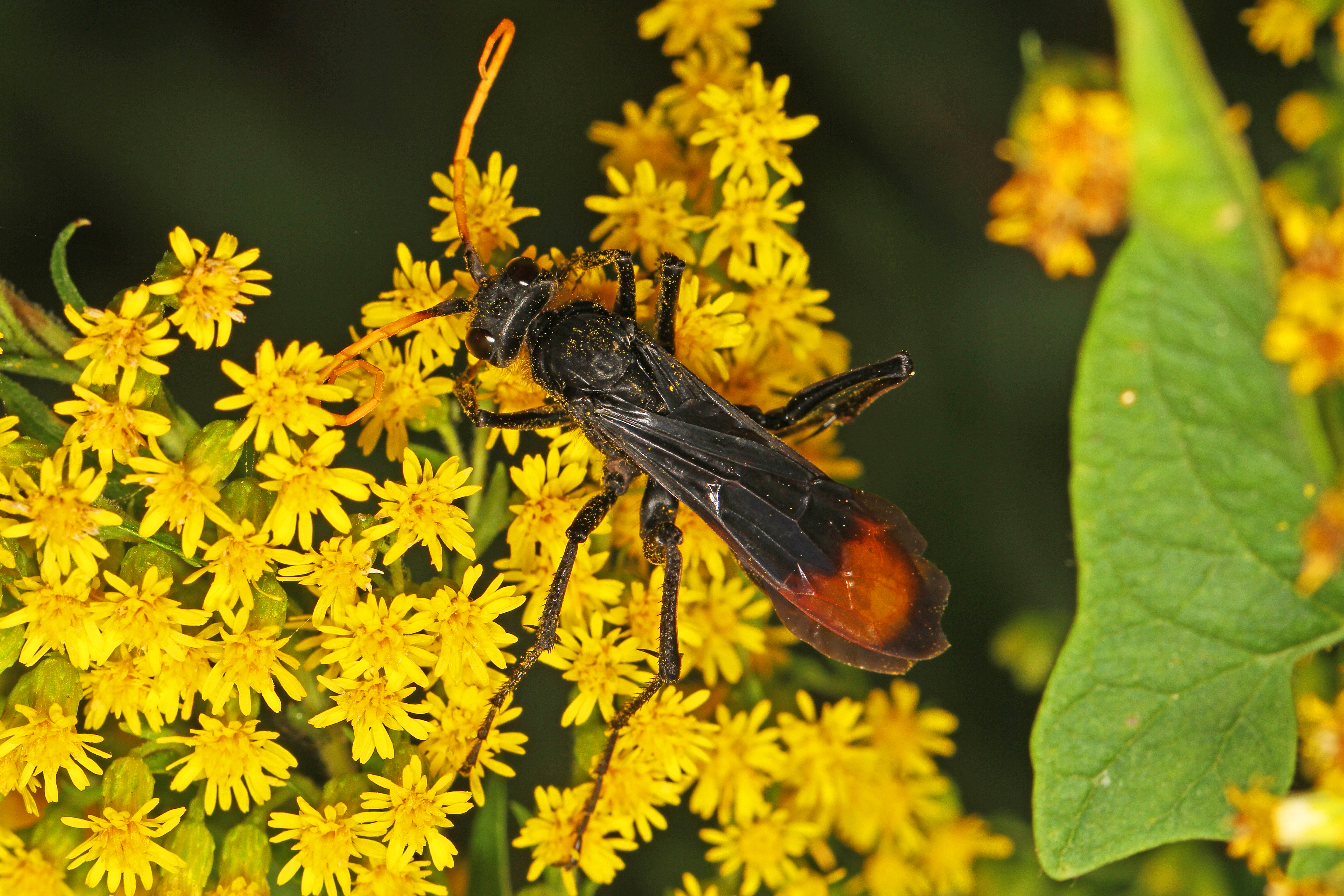 Spider Wasp - Entypus unifasciatus, Julie Metz Wetlands, Woodbridge, Virginia